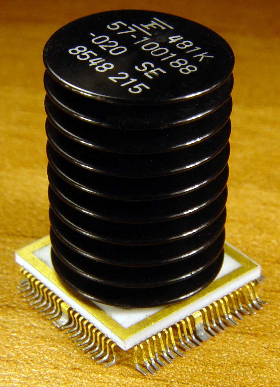 Amdahl 5860 Computer Air Cooled Logic Processor (1982). The chips use Emitter Coupled Logic Technology, which though fast, used a lot of electricity, so generated a lot of heat that had to be dispersed.